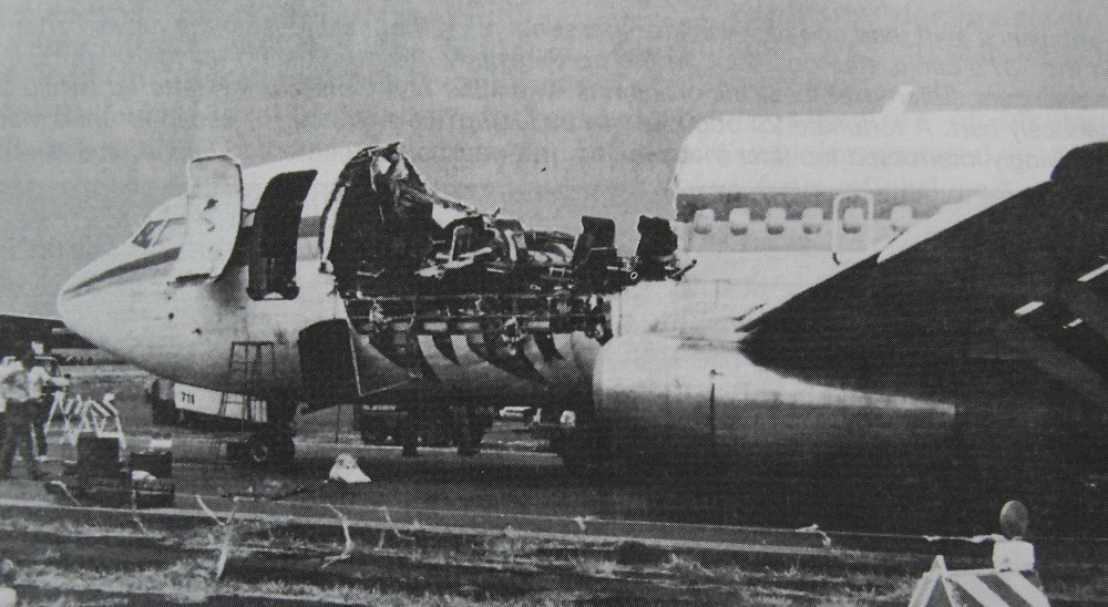 Aloha Airlines Flight 243 fuselage left side